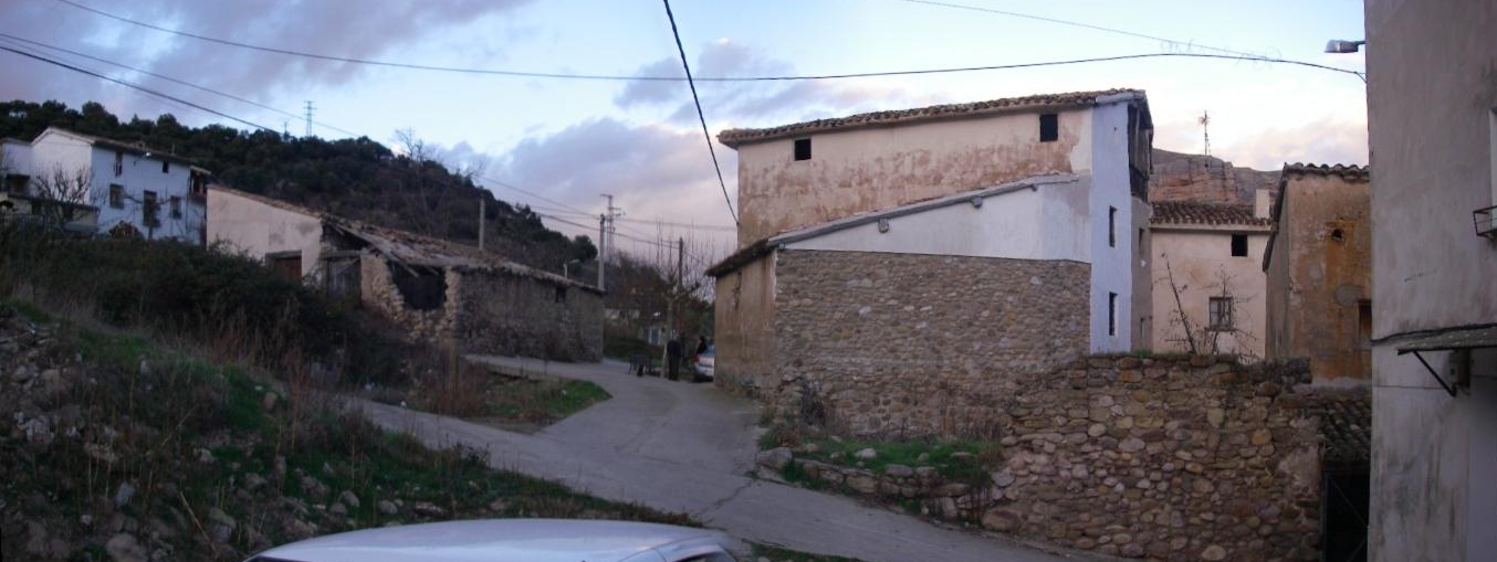 View of Panzares (La Rioja, Spain)